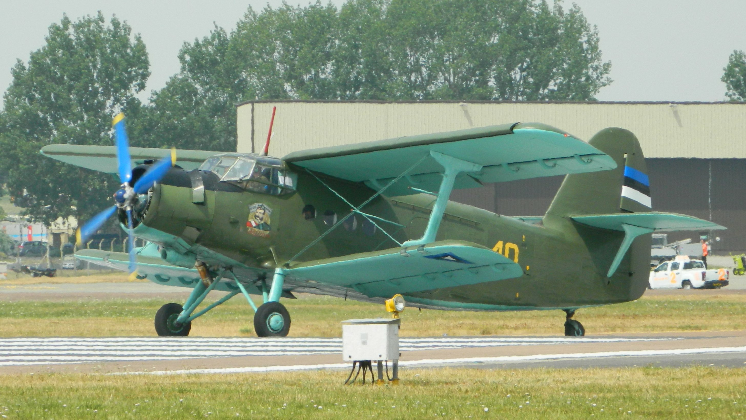 Estonian Air Force Antonov An-2 coded "40" departs RAF Fairford on the Royal International Air Tattoo departure day Monday 22 July 2013.